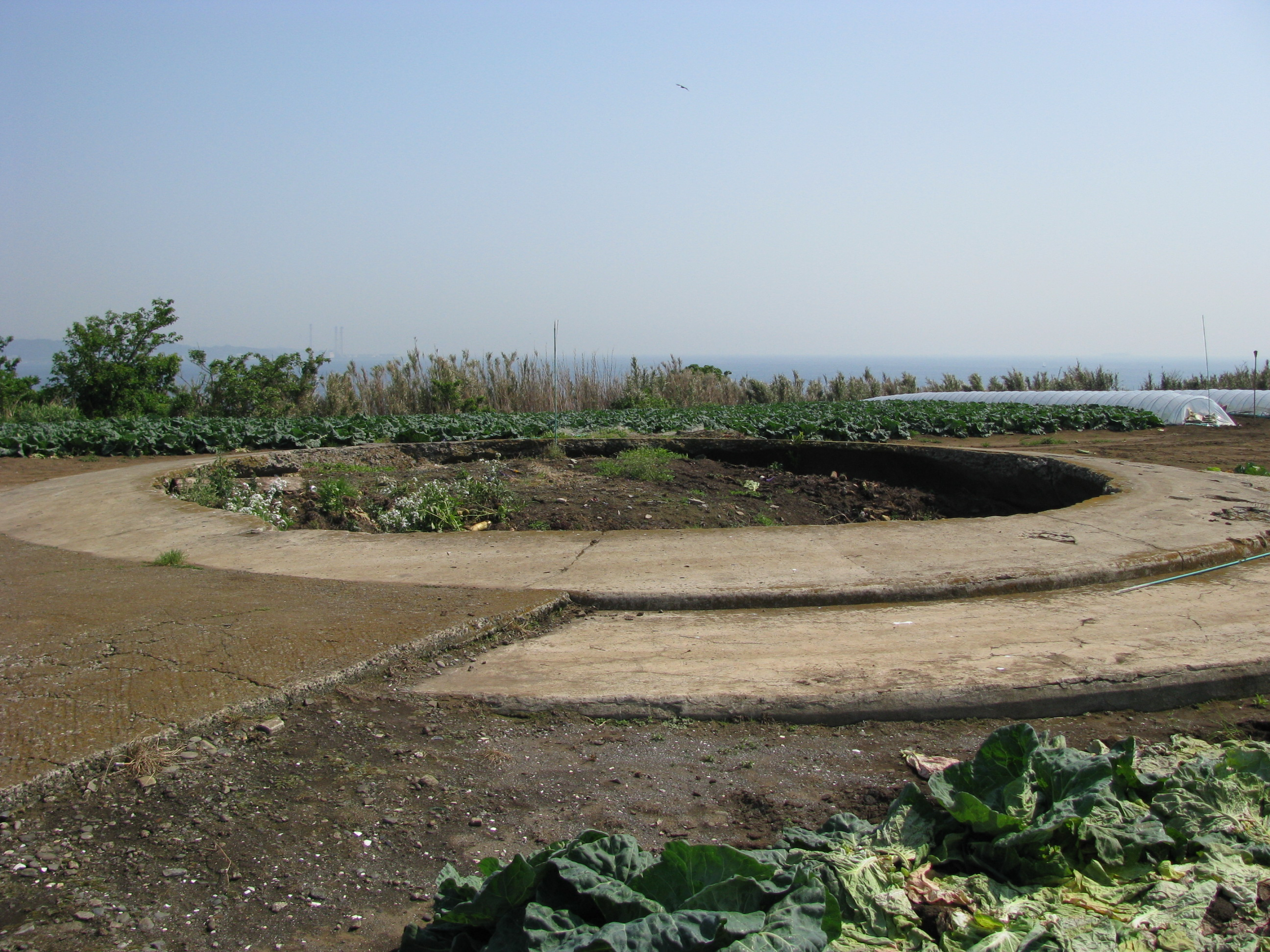 Remains of the Kenzaki battery. Kenzaki battery was defense of Tokyo Bay. This located in Miura, Kanagawa, Japan.